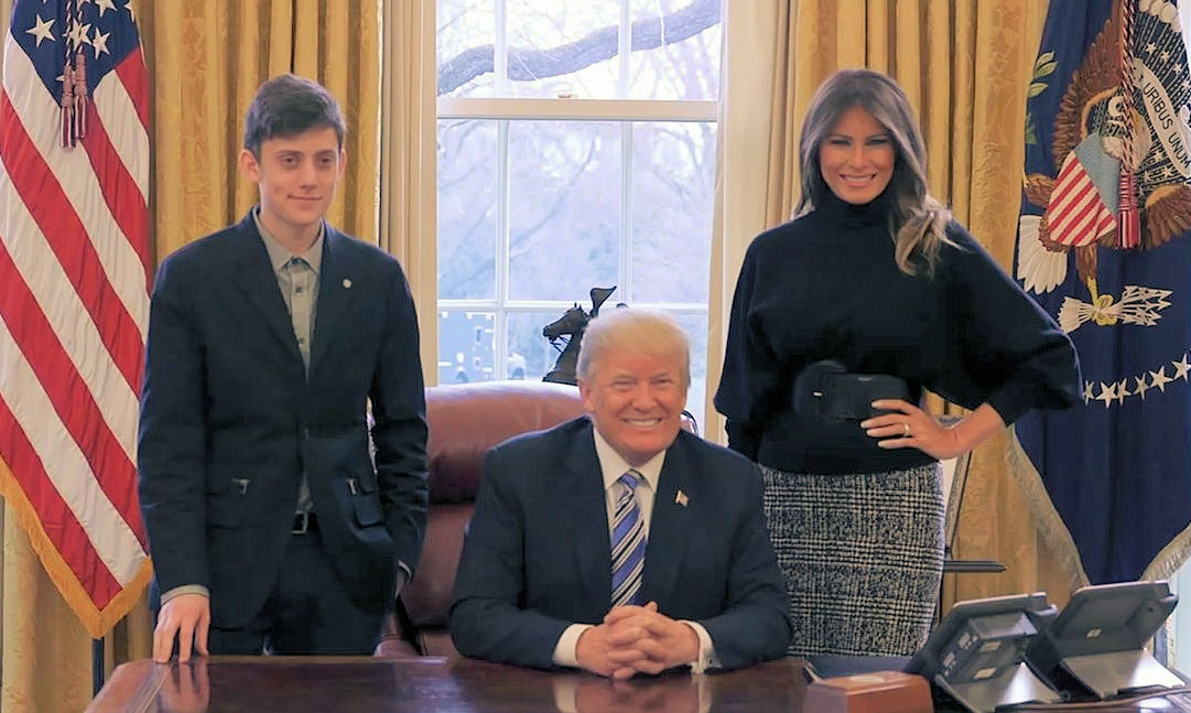 Cropped and brightened version of official photograph - Marjory Stoneman Douglas student Kyle Kashuv poses with US President Donald Trump, and First Lady Melania Trump in the Oval Office